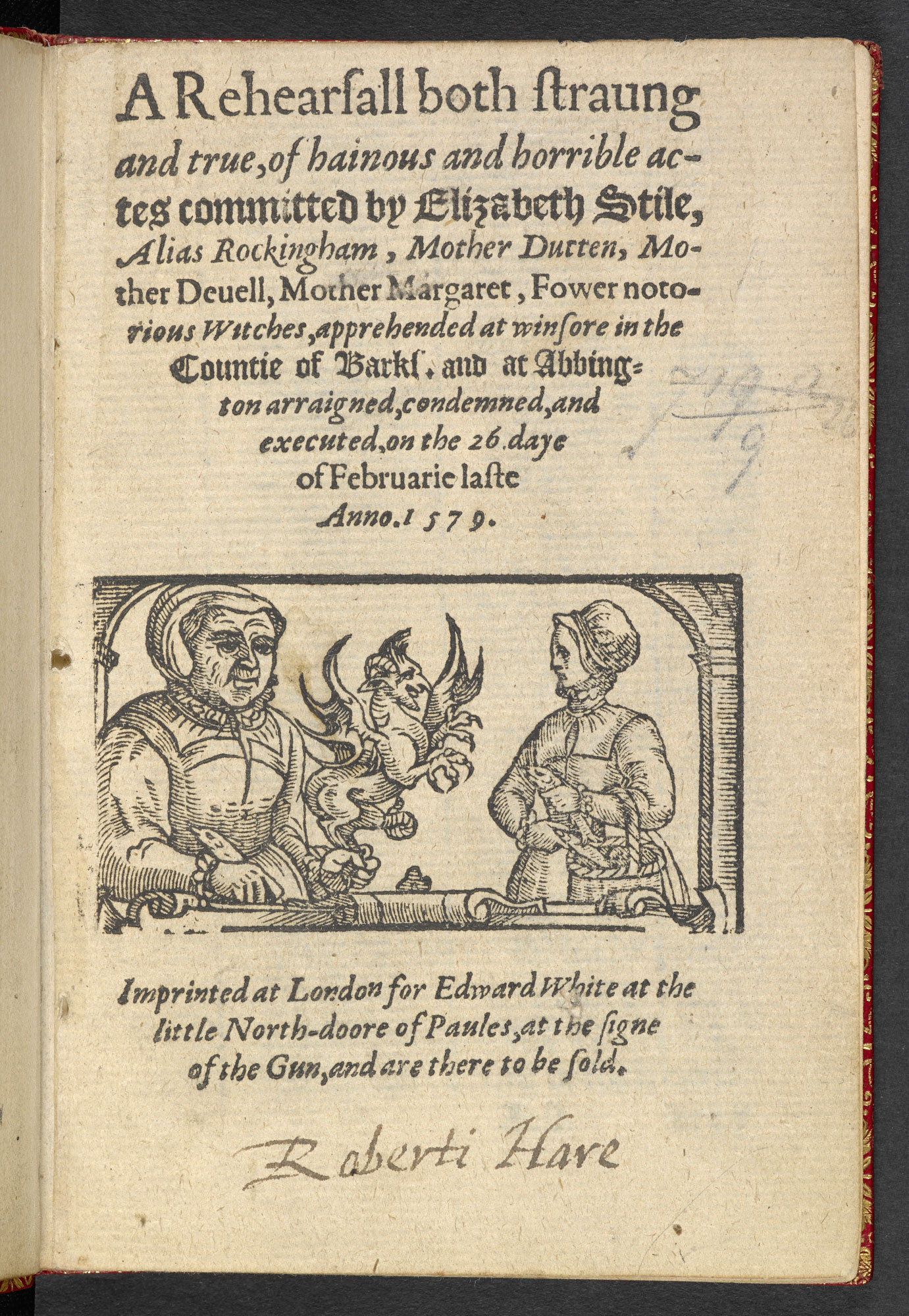 This item is an English witchcraft pamphlet from 1579. After a preface to the reader condemning the practice of witchcraft and advising the avoidance and prosecution of witches, the pamphlet gives an account of the doings of Elizabeth Stile – a 65-year-old Windsor woman accused of witchcraft – and three other women (Mothers Dutten, Deuell and Margaret), based on Stile’s confession in jail. The acts of witchcraft described include the women keeping spirits or fiends in the likenesses of animals (toads, cats, rats) that acted as servants and companions. These animals – known as familiars – were fed on the witches’ own blood. The acts also include many counts of maleficium, i.e. the acts of harm caused by witchcraft. These maleficia include murders committed by piercing images of the victims at the location of their hearts, making victims sick through incantation and setting their animal familiars against them. The text also describes a man, Father Rosimonde, who is claimed to shape-shift. The woodcut illustration on the title page shows two old women, one of whom holds a small demon with pronounced wings, claws, horns and tail. Other woodcuts in the pamphlet illustrate examples of animal familiars and one shows a woman feeding her familiars, presumably with blood as described in the text.